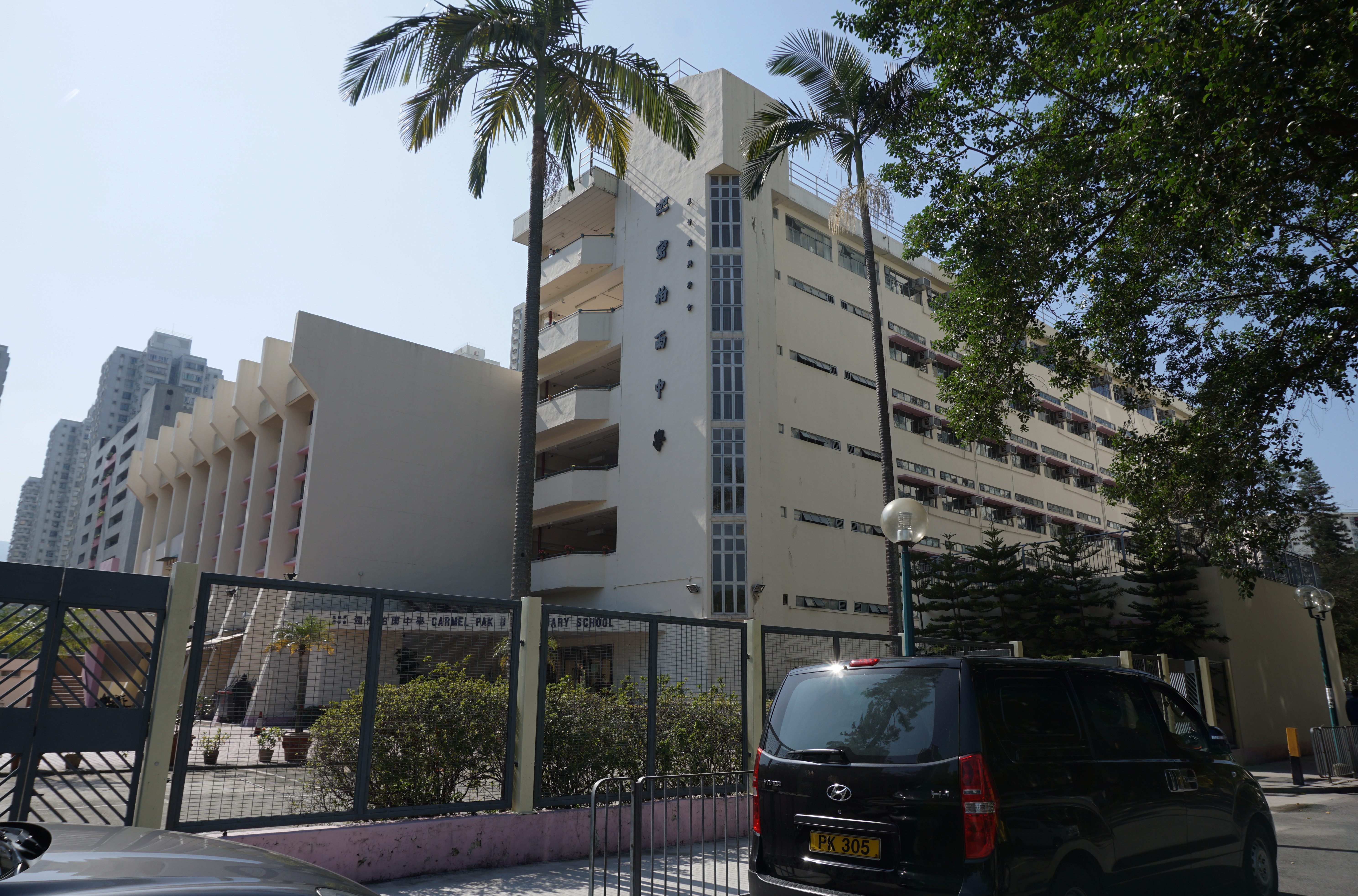 Carmel Pak U Secondary School in Tai Po, Hong Kong.